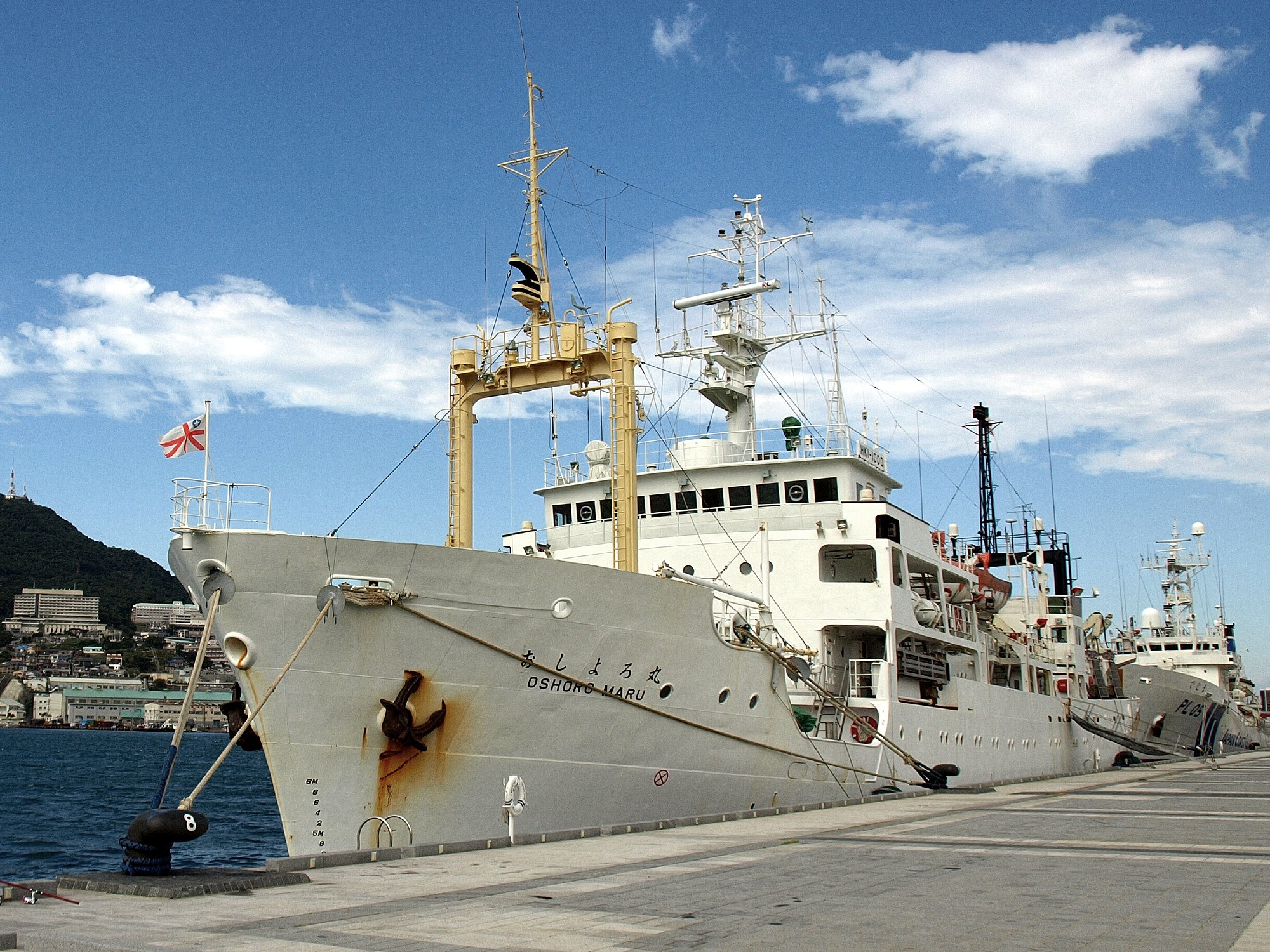 OSHORO MARU IMO Number: 8401365 MMSI Number: 431477000 Callsign: JDVA Length: 72 m Beam: 12 m